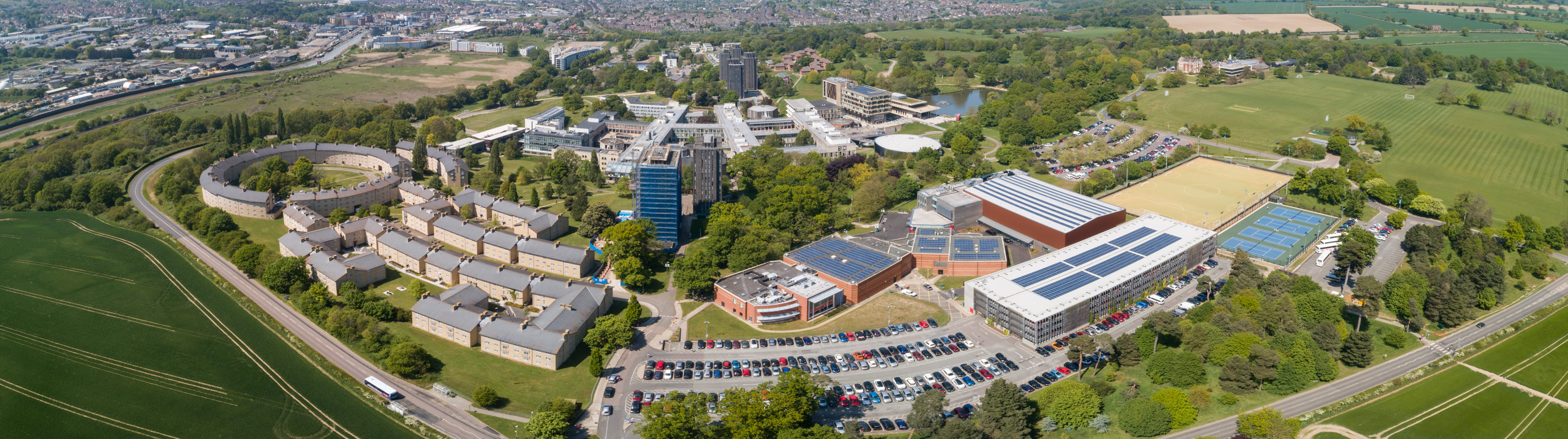 Aerial view of the University of Essex's Colchester Campus taken in 2019